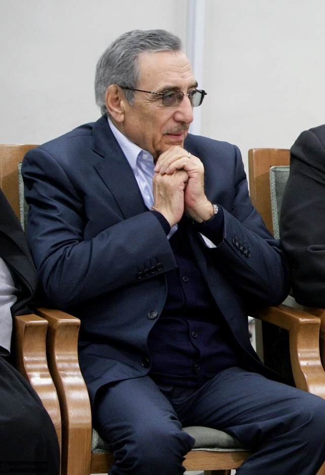 Monir Shafiq in Meeting of Participants in the International Conference on Unity with Ayatollah Ali Khamenei